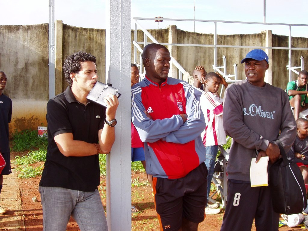 Enrique in Cameroon ...